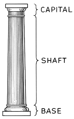 line art drawing of column. ATTENZIONE ! Questa è una colonna di fantasia che non esiste nella realtà ! Mostra un capitello di tipo dorico, scanalature strette di tipo ionico, mentre la base della colonna e il collarino sono tipici dell'ordine tuscanico che invece non presenta scanalature. PAY ATTENTION ! This is a column of fantasy that does not exist in reality! It shows a capital of the Doric type, narrow grooves of the ionic order, while the base of the column and the collar are typically of the Tuscanic order that instead has not grooves. --DenghiùComm (talk) 10:56, 23 April 2015 (UTC)